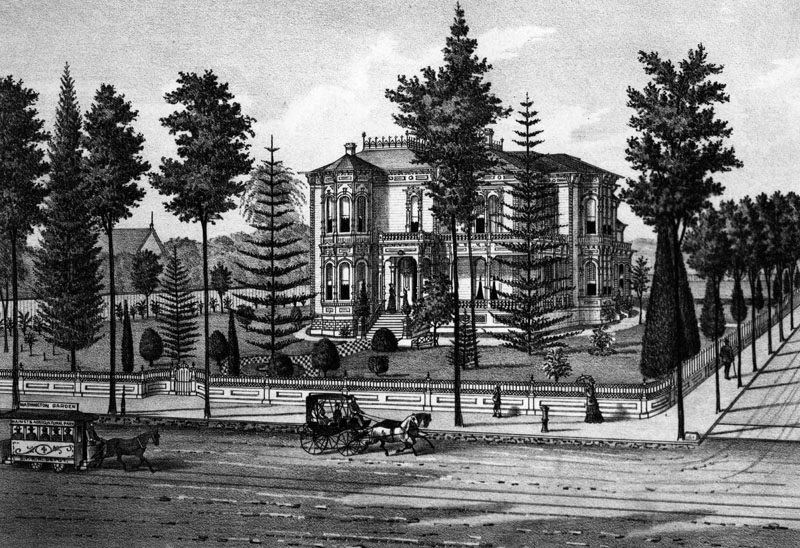 An 1887 lithograph of Isaias W. Hellman's home in Los Angeles. He would move to San Francisco in 1890 and become president of Wells Fargo Bank.